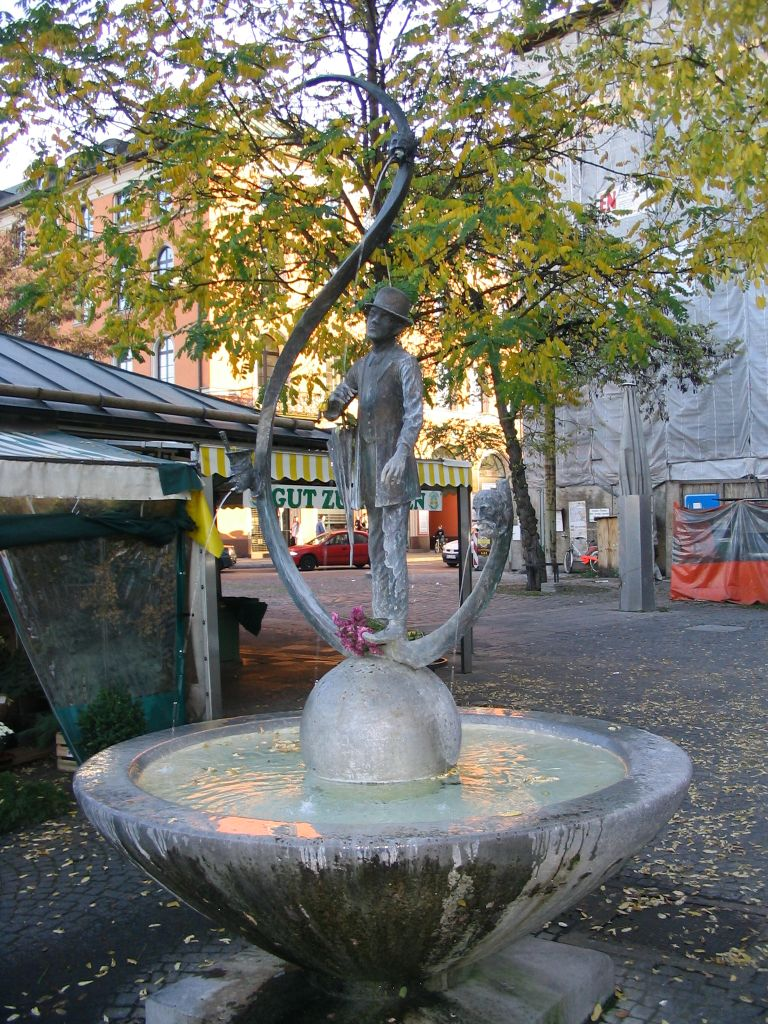 Karl Valentin fountain on the Viktualienmarkt in Munich.